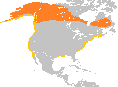 Melanitta perspicillata range map. Source